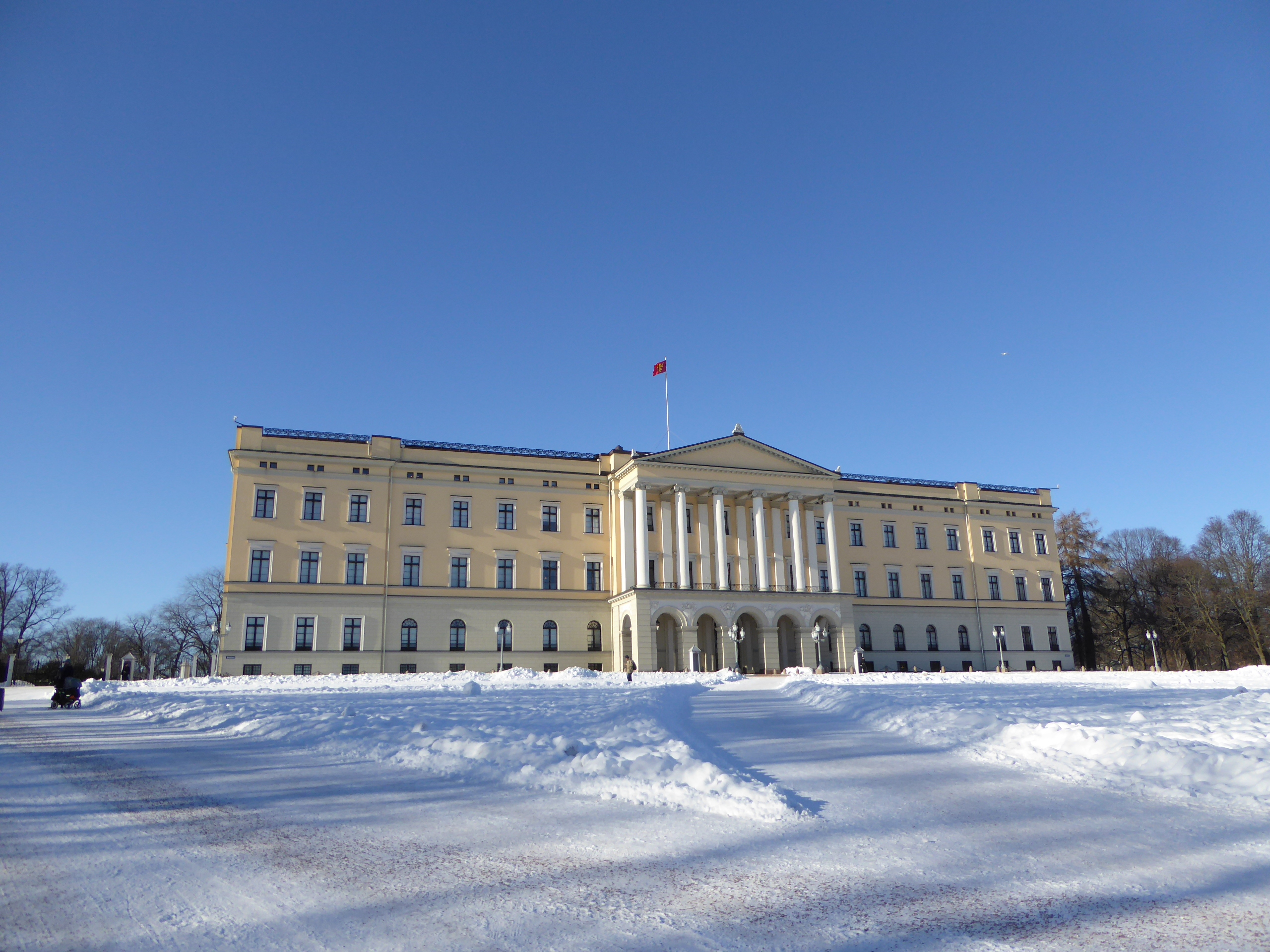 Snow at the Royal Palace (Det Kongelige Slott) in Oslo.